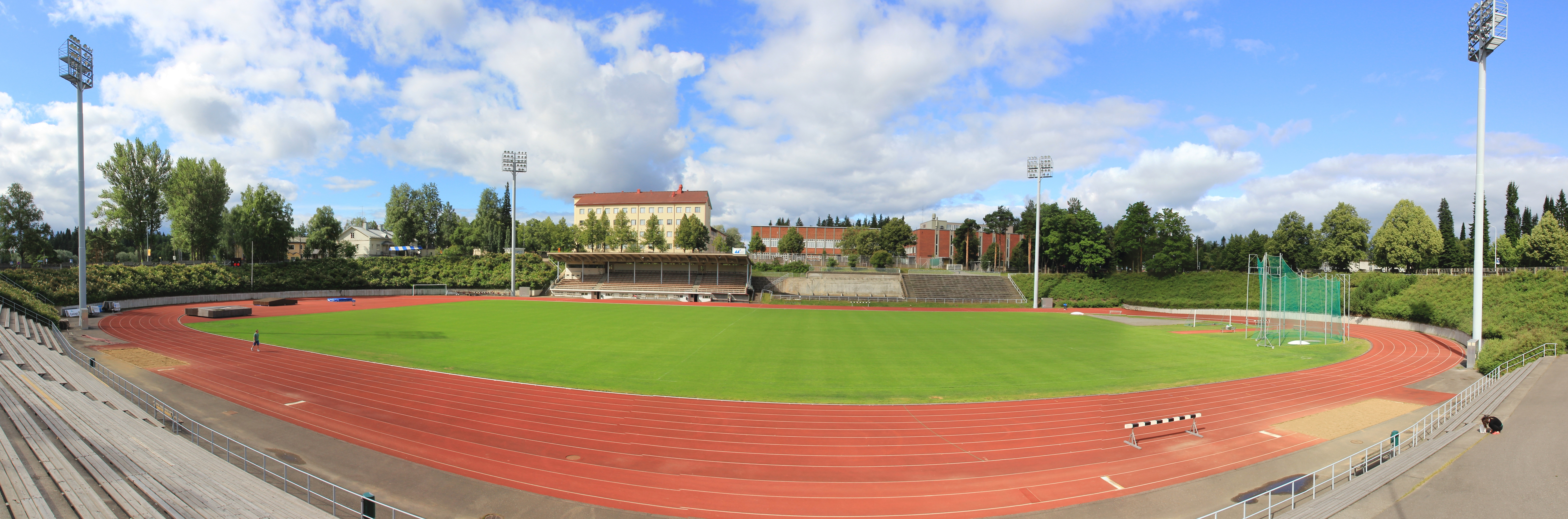 Panorama of Mikkelin urheilupuisto stadium.